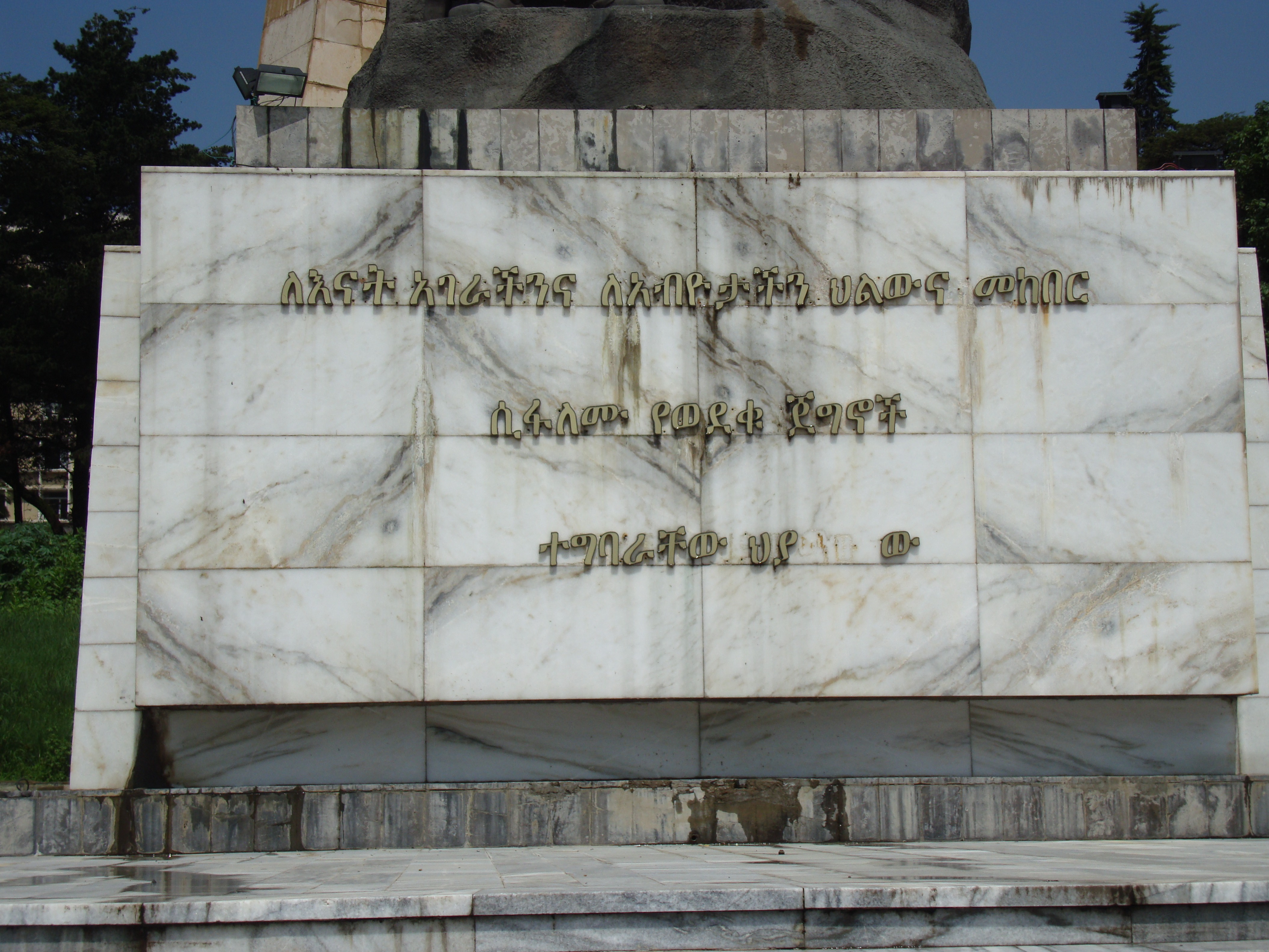 Tiglachin monument, Addis Abeba, Ethiopia